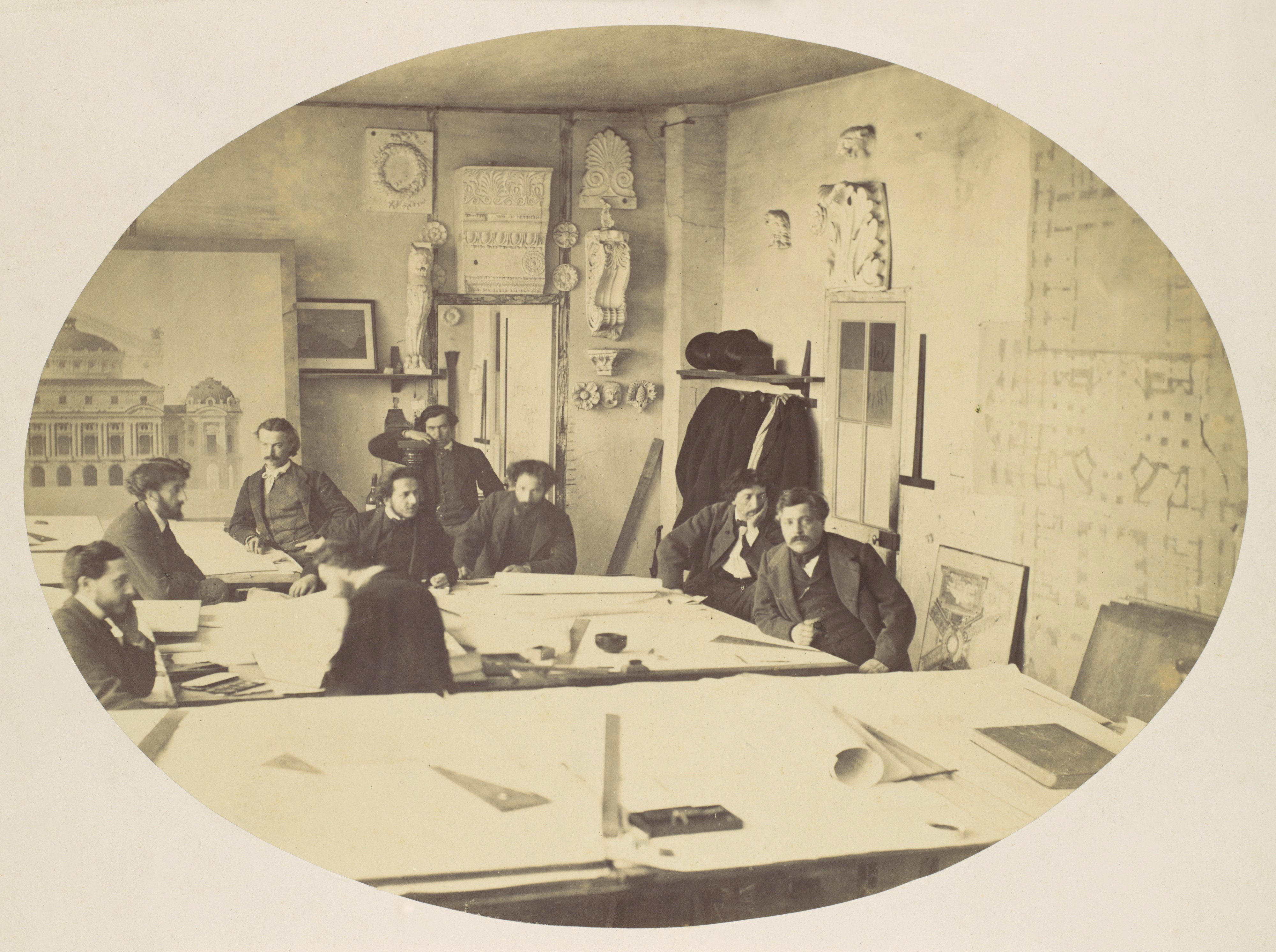 Charles Garnier in the Drafting Room While Designing the New Paris Opera